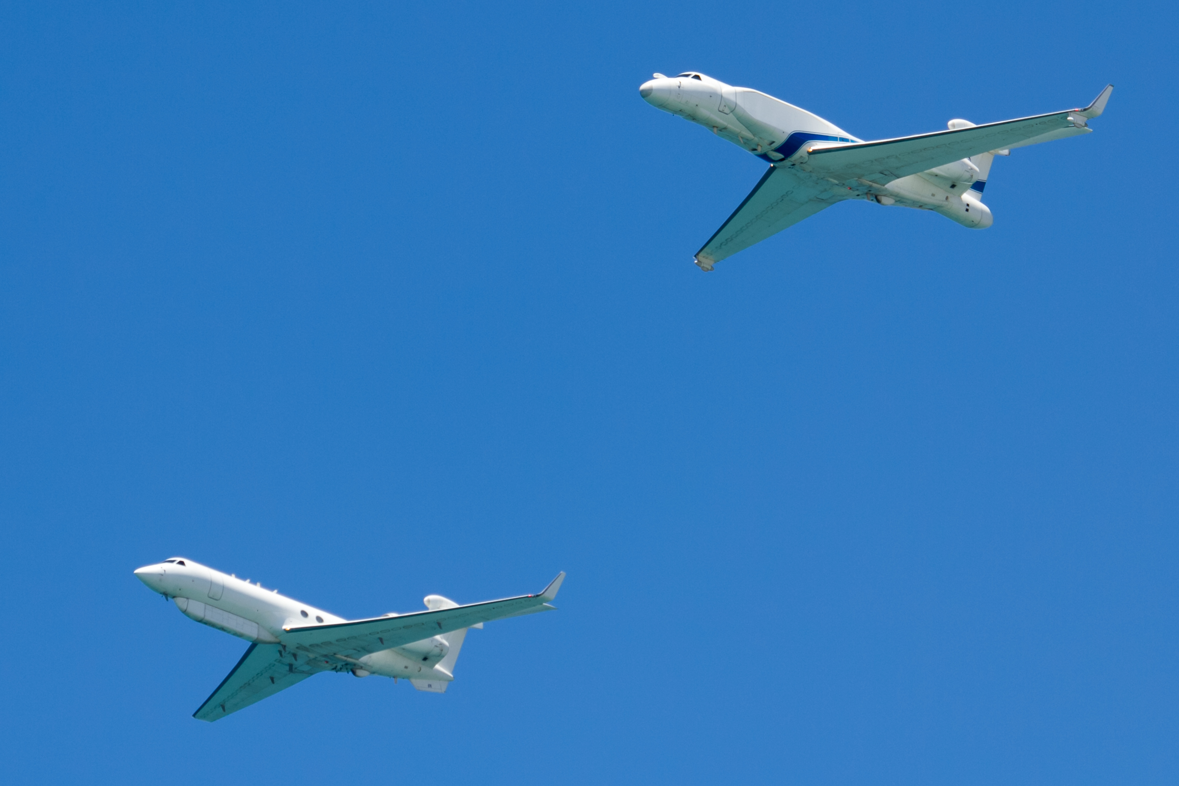 The Eitam and Shavit of 122 Squadron during Israel's 68th Independence Day flypast